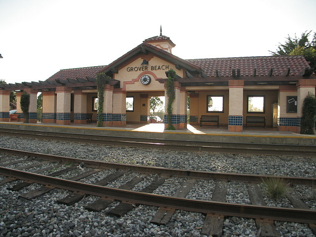 The Amtrak station in Grover Beach, San Luis Obispo County, California.